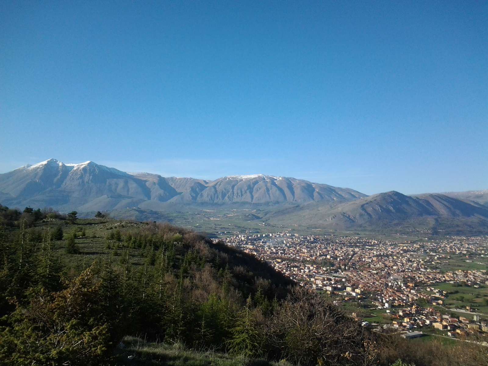 Panoramic view of Avezzano, Abruzzo, Italy, from Salviano mountain